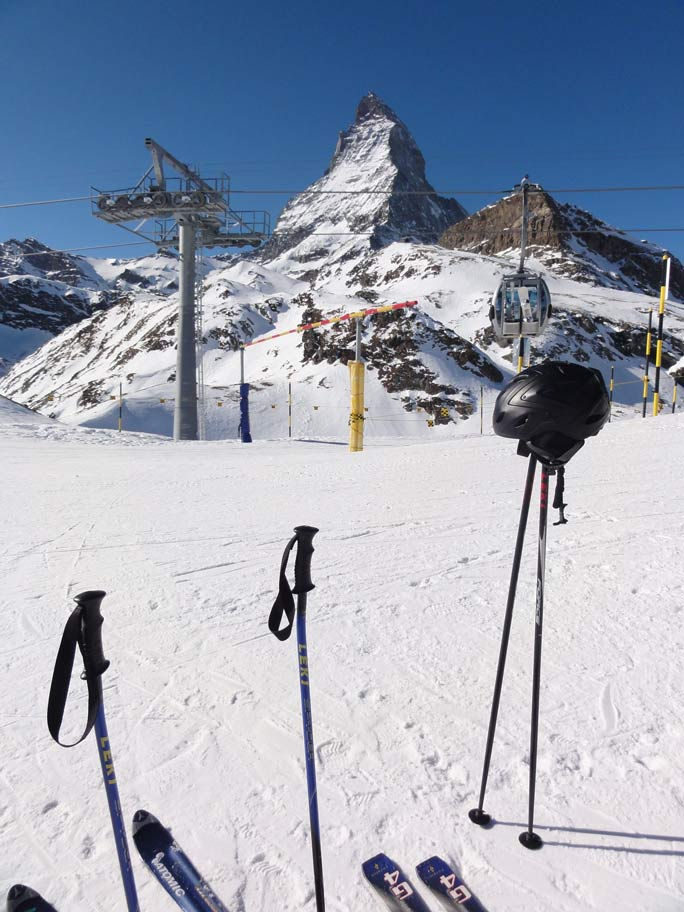 Matterhorn in Zermatt, Switzerland